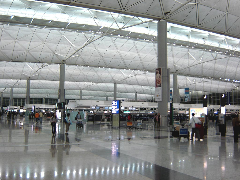 Hong Kong International Airport - Inside